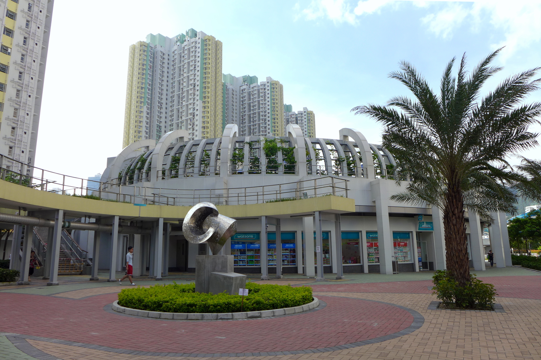 Ching Long Shopping Centre Zone B